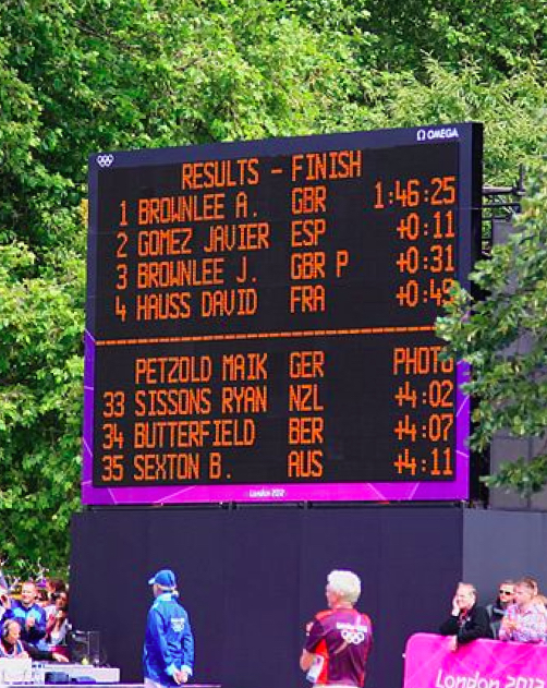 London 2012 Triathlon team Results of the London 2012 men's Olympic triathlon